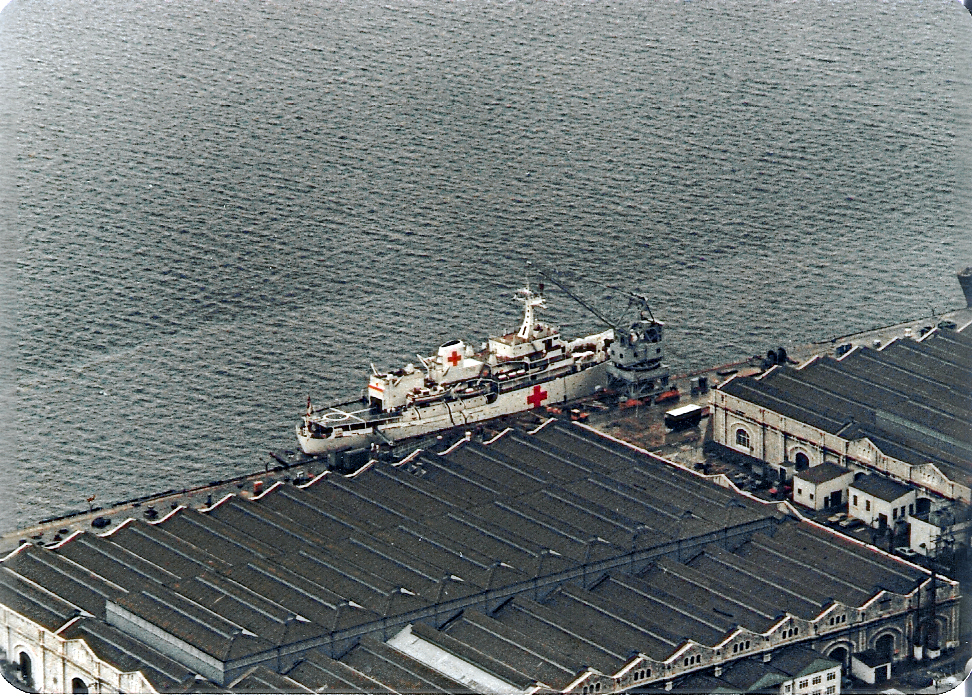 HMS Hecla at Gibraltar HM Naval Base after conversion to ambulance ship ready to accompany SS Uganda which had just been converted into a hospital ship in Gibraltar.